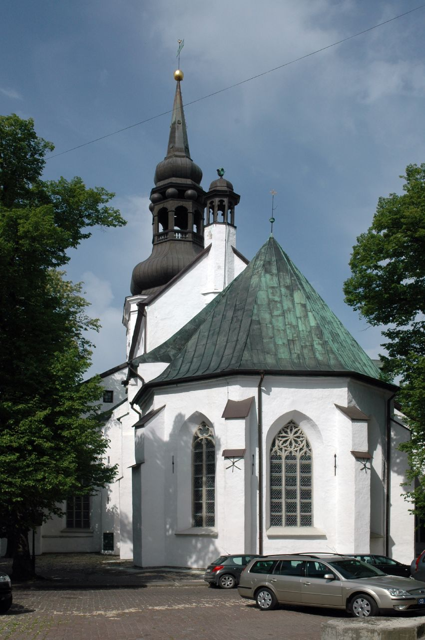 Cathedral of Saint Mary, Tallinn